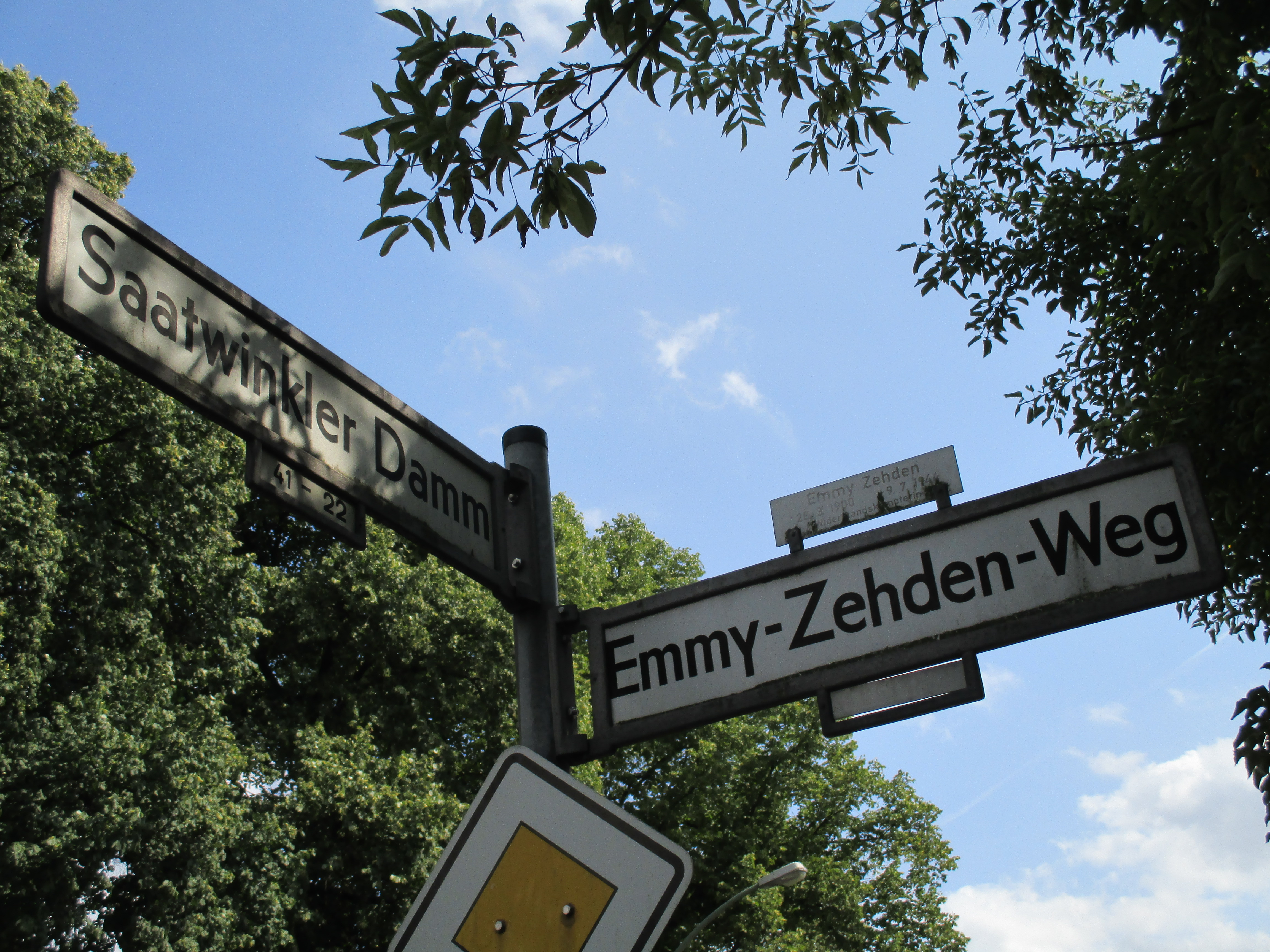 Emmy-Zehden-Weg in Berlin